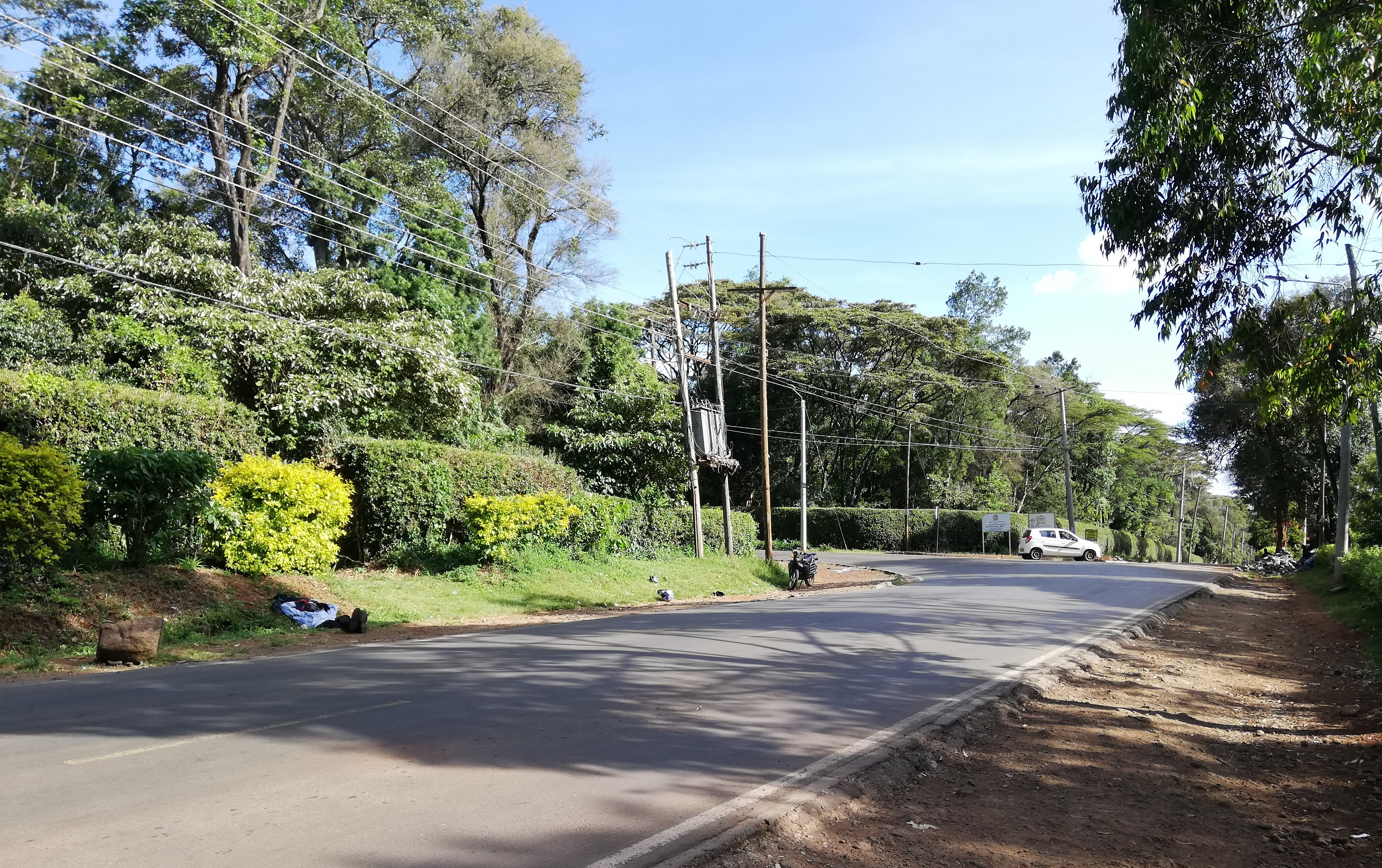 A sunny sunday on Karen Road near to Nairobi This is an image with the theme "Africa on the Move or Transport" from: Kenya